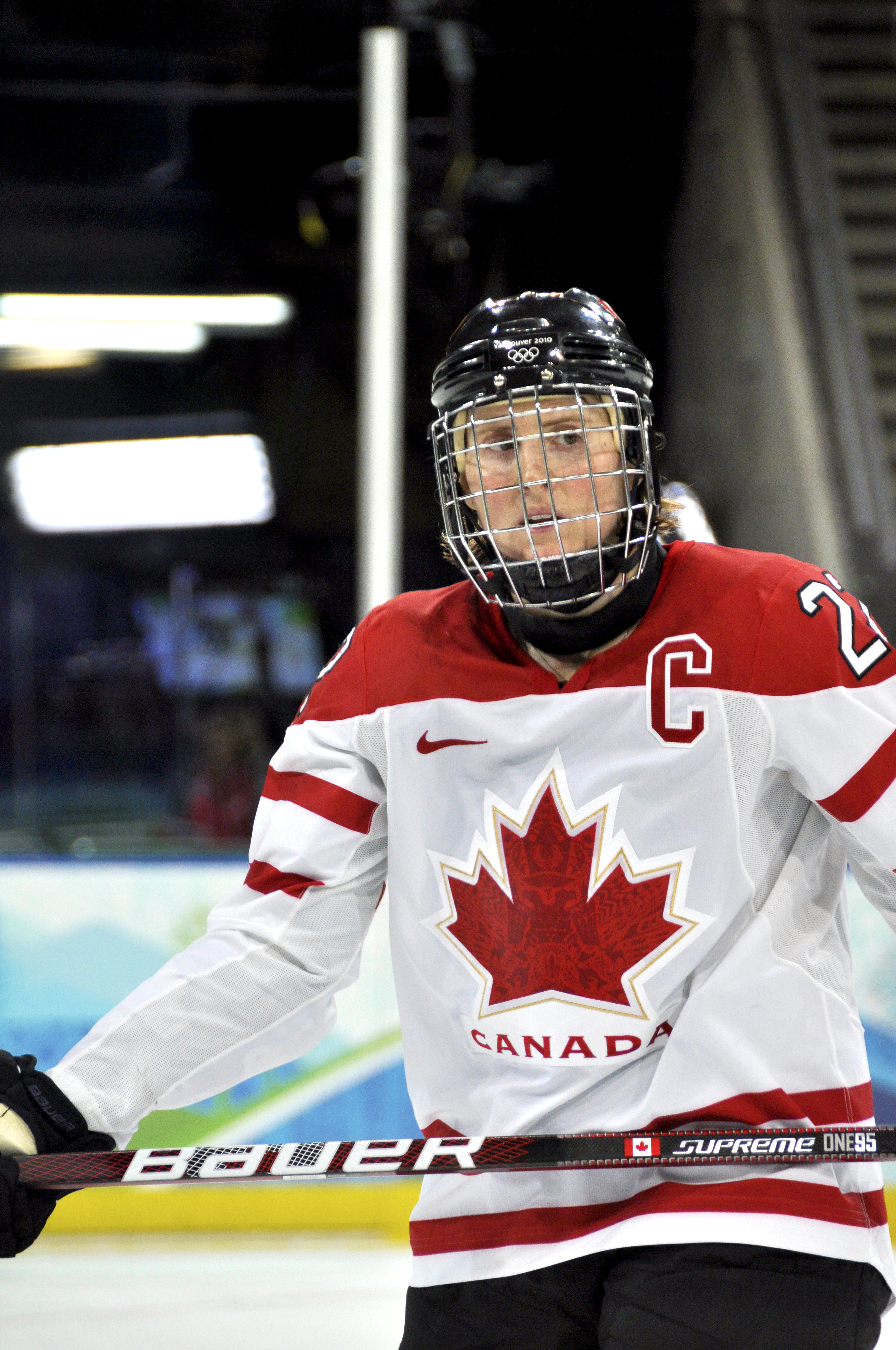 Hayley Wickenheiser This photo from 's blog! You can also follow her on Twitter at